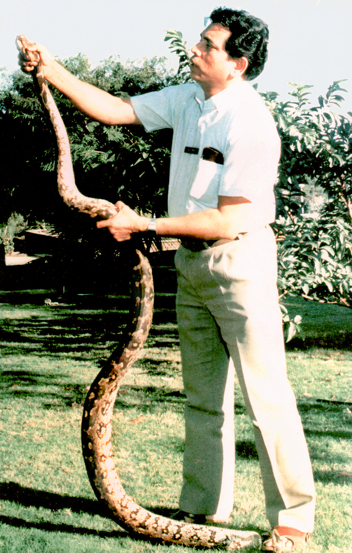 Dr Lalji Singh holding a snake